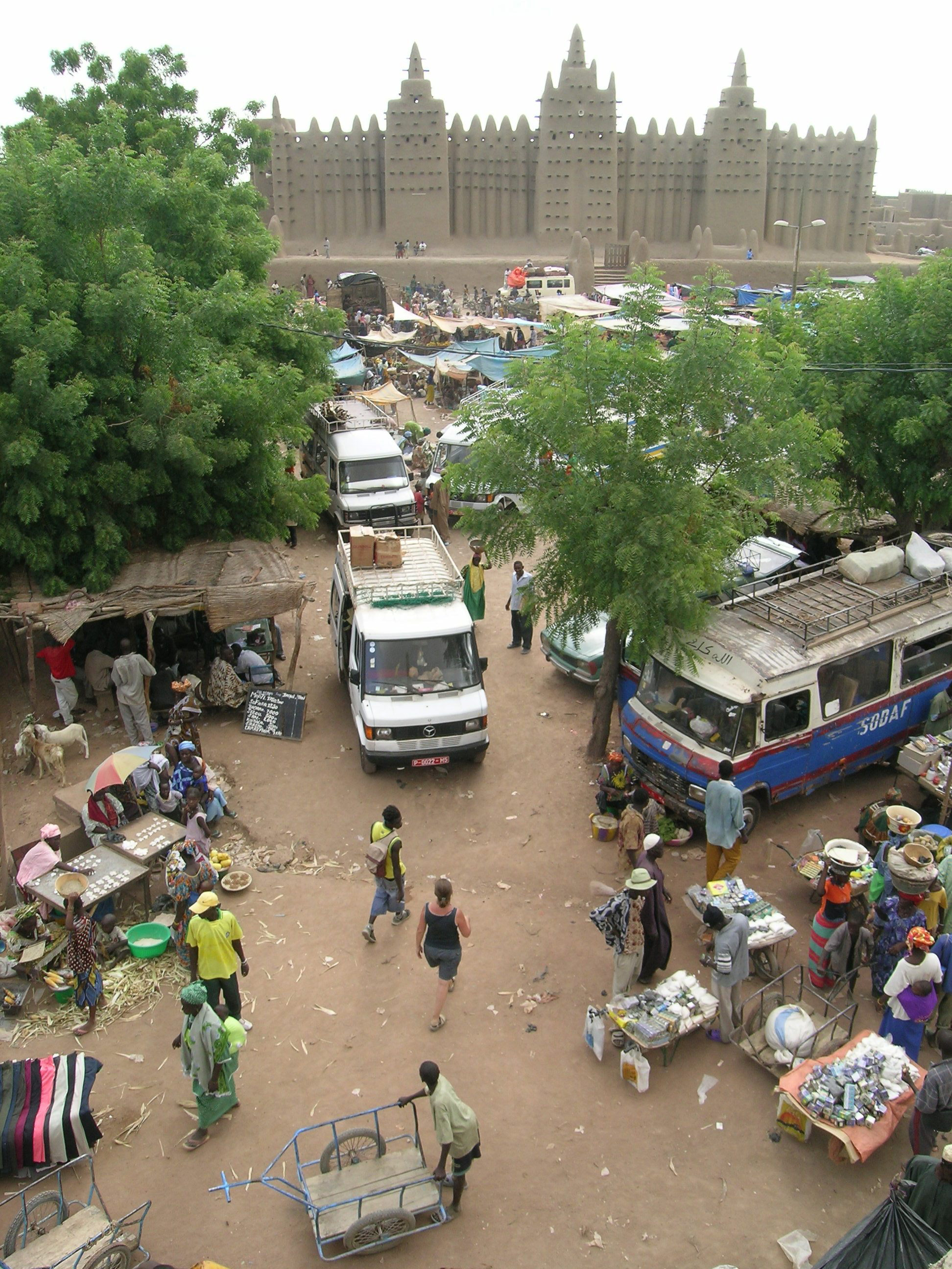 Djenne, city in Mali, West Africa